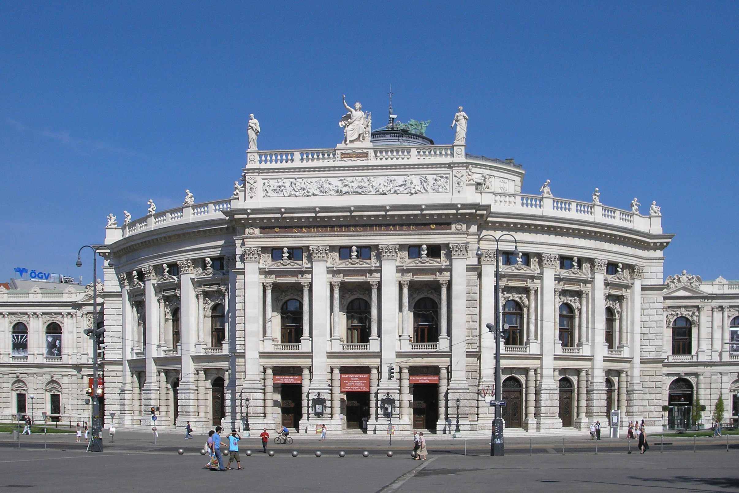 Austria, Vienna, Burgtheater